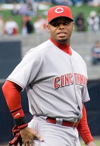 Ken Griffey ; move approved by Wuzur